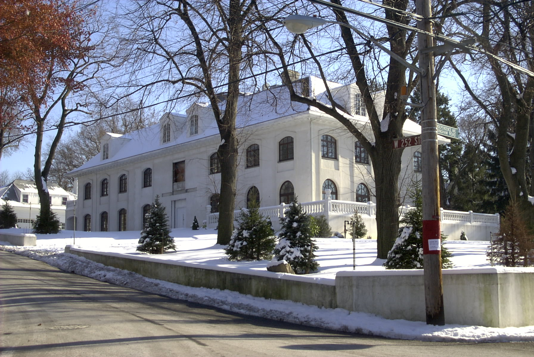 The house where JFK lived when he was a student at Riverdale Country School in the 1920s. This house is located at 5040 Independence Avenue, across the street from Wave Hill.